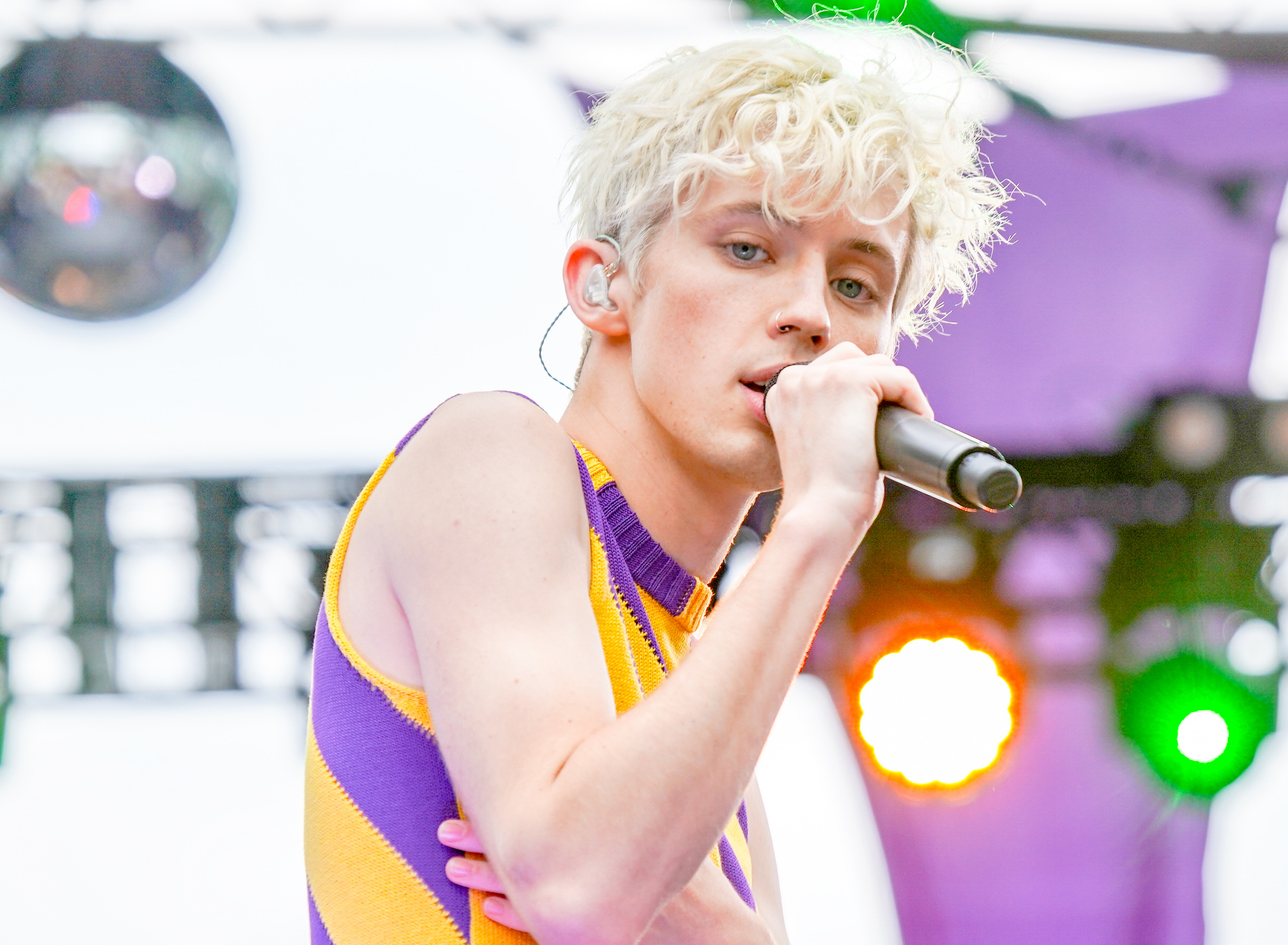 2018.06.10 Troye Sivan at Capital Pride w Sony A7III, Washington, DC USA 03478